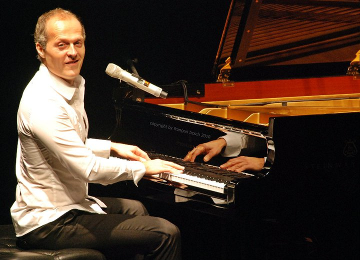 Joja Wendt playing the grand piano in Echternach (Luxemburg) 2011